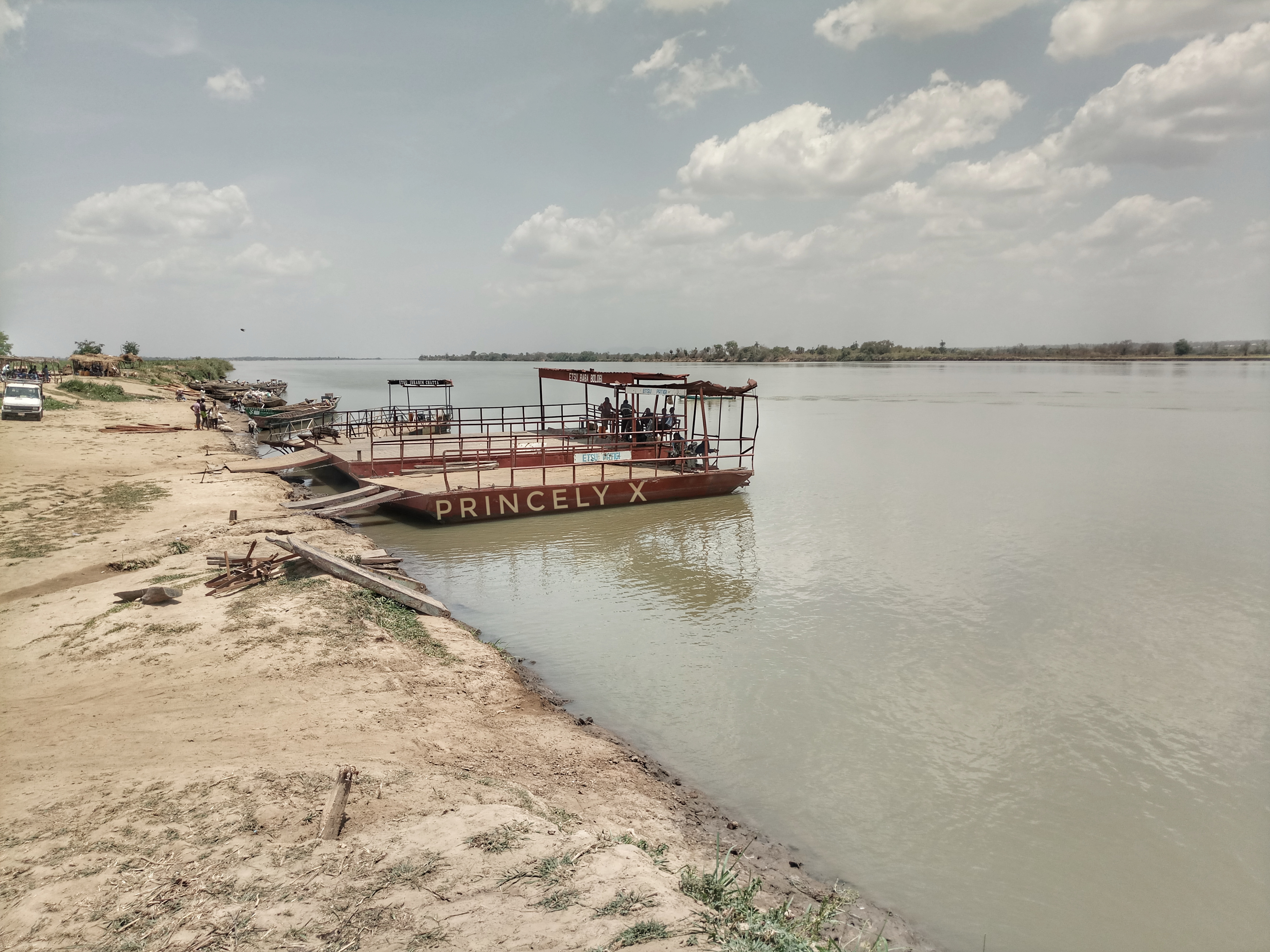 This is the bank of the Patigi River, in Patigi Local Government Area, Kwara state, Nigeria. The river is home to many fishing activities, and hosts the annual Patigi regatta fishing and cultural festival.